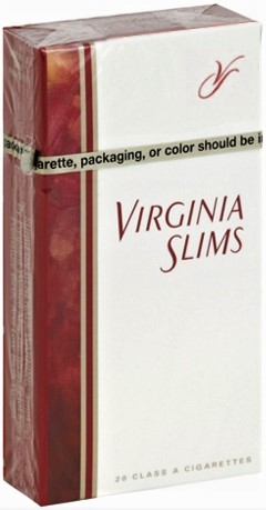 Newest style of Virginia Slims Pack 100's (non copyright photo)